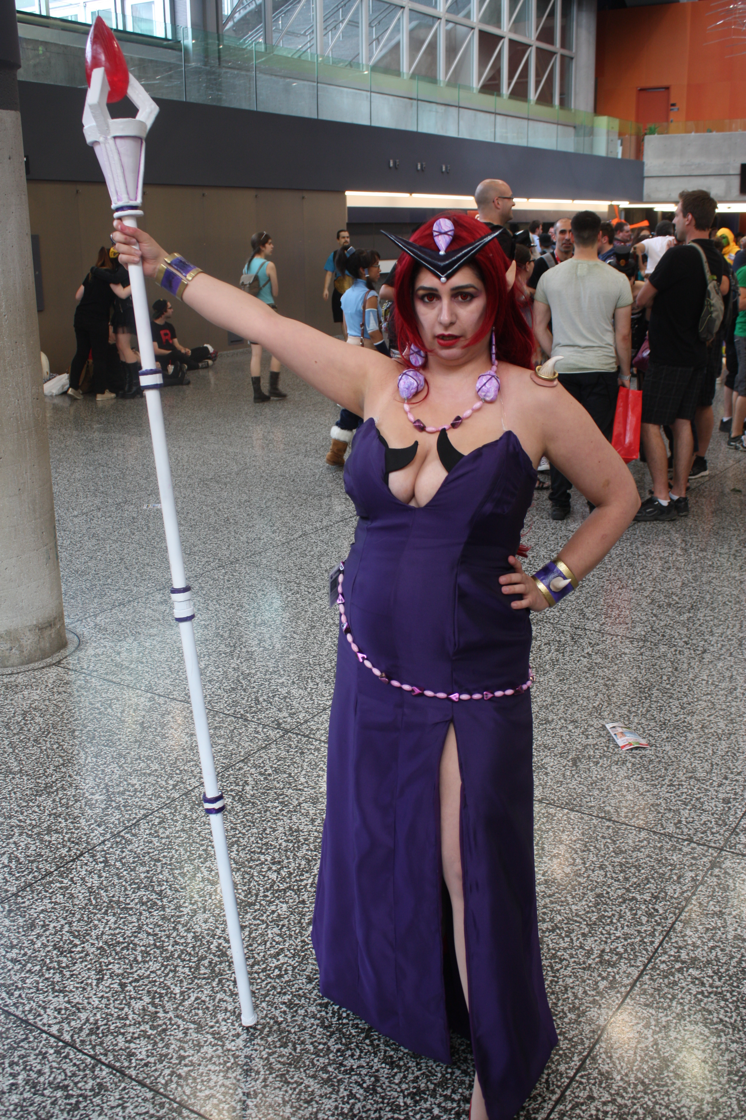 Cosplay one day two of Montreal Comiccon 2015.